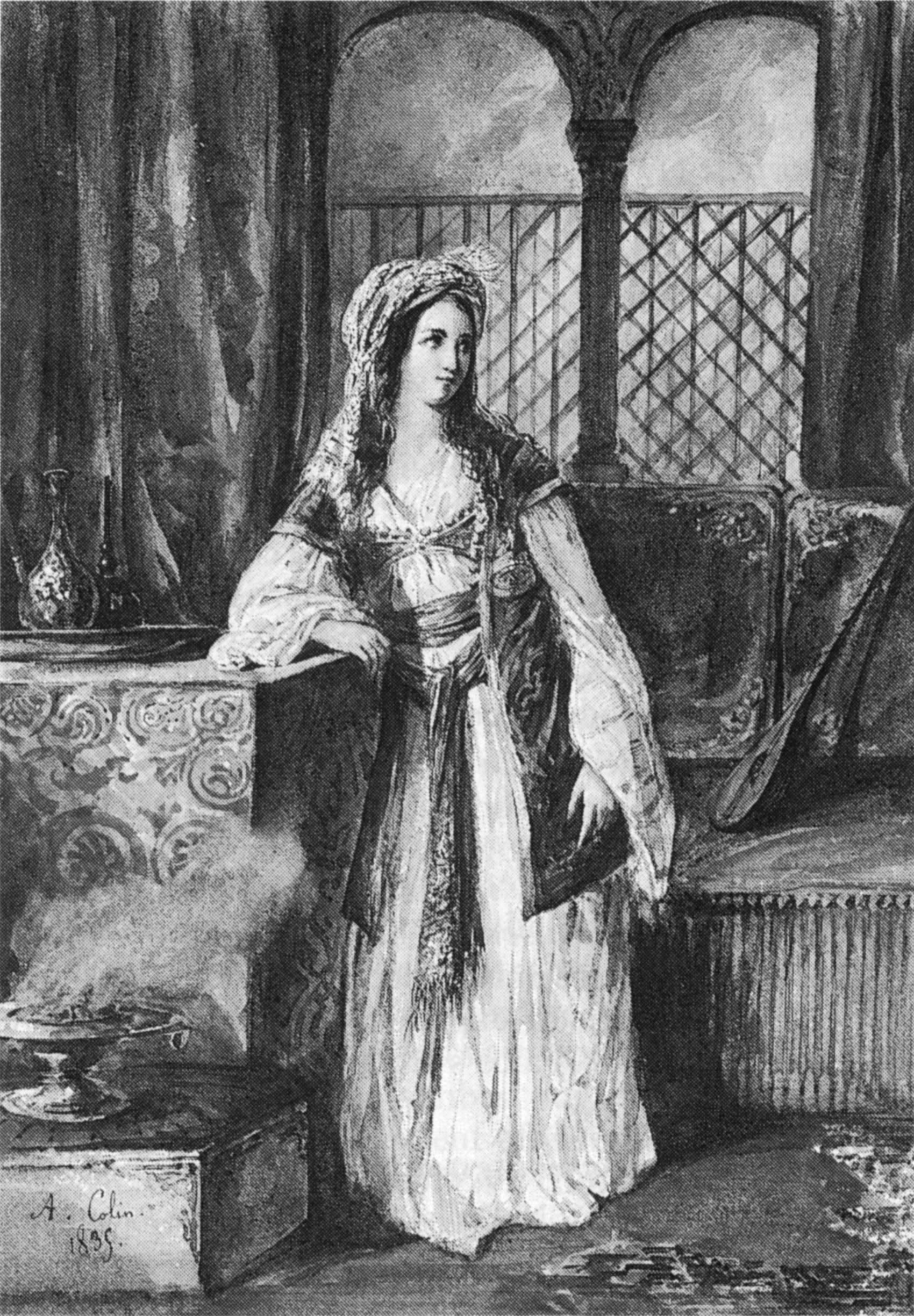 Cornélie Falcon as Rachel in the opera La Juive by Halévy, the role which she sang at the premiere on 23 February 1835 at the Paris Opera.